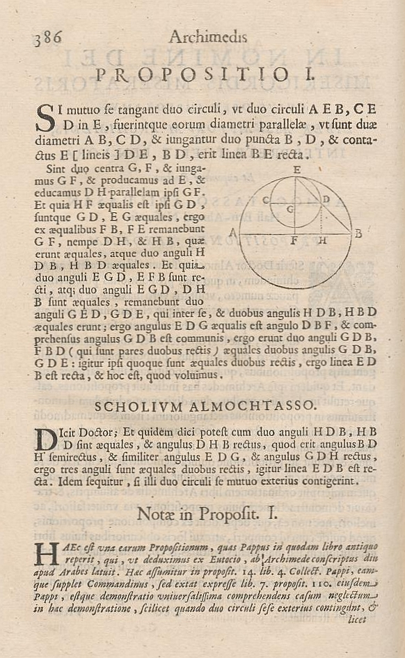 Liber Assumptorum (Book of Lemmas), Proposition 1